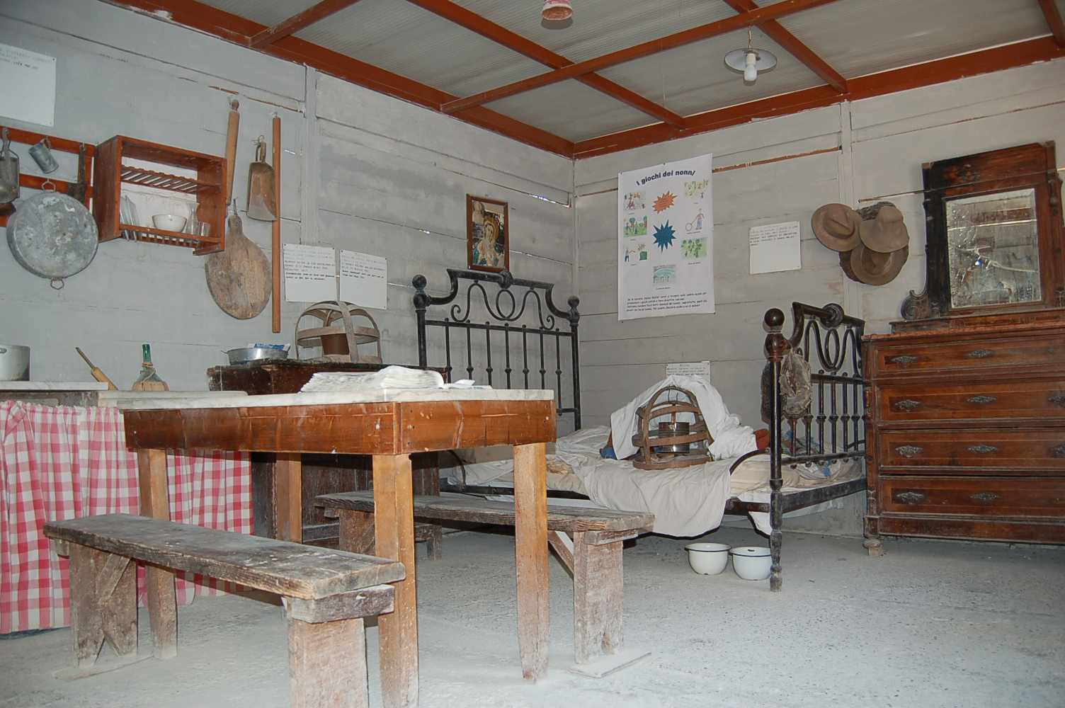 This photo is from a little marble quarry museum in Carrara. These are the living quarters for a quarry worker. It was basically a one room house. I thought it was quite cute and could live very happily there.